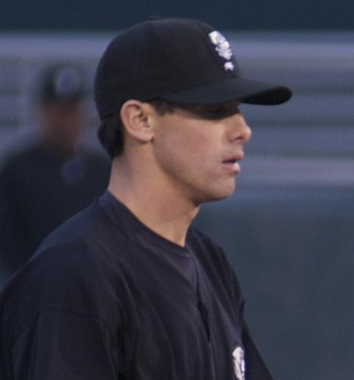 Brad Mills pitching. West Michigan @ Lansing 05092008